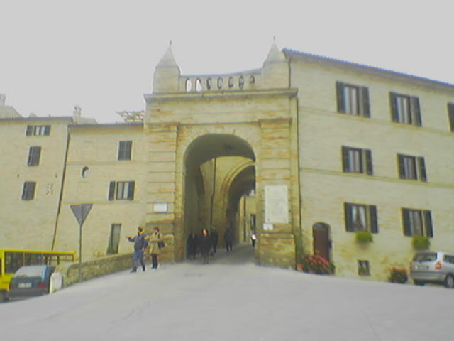 Porta del Trebbio, Montelupone